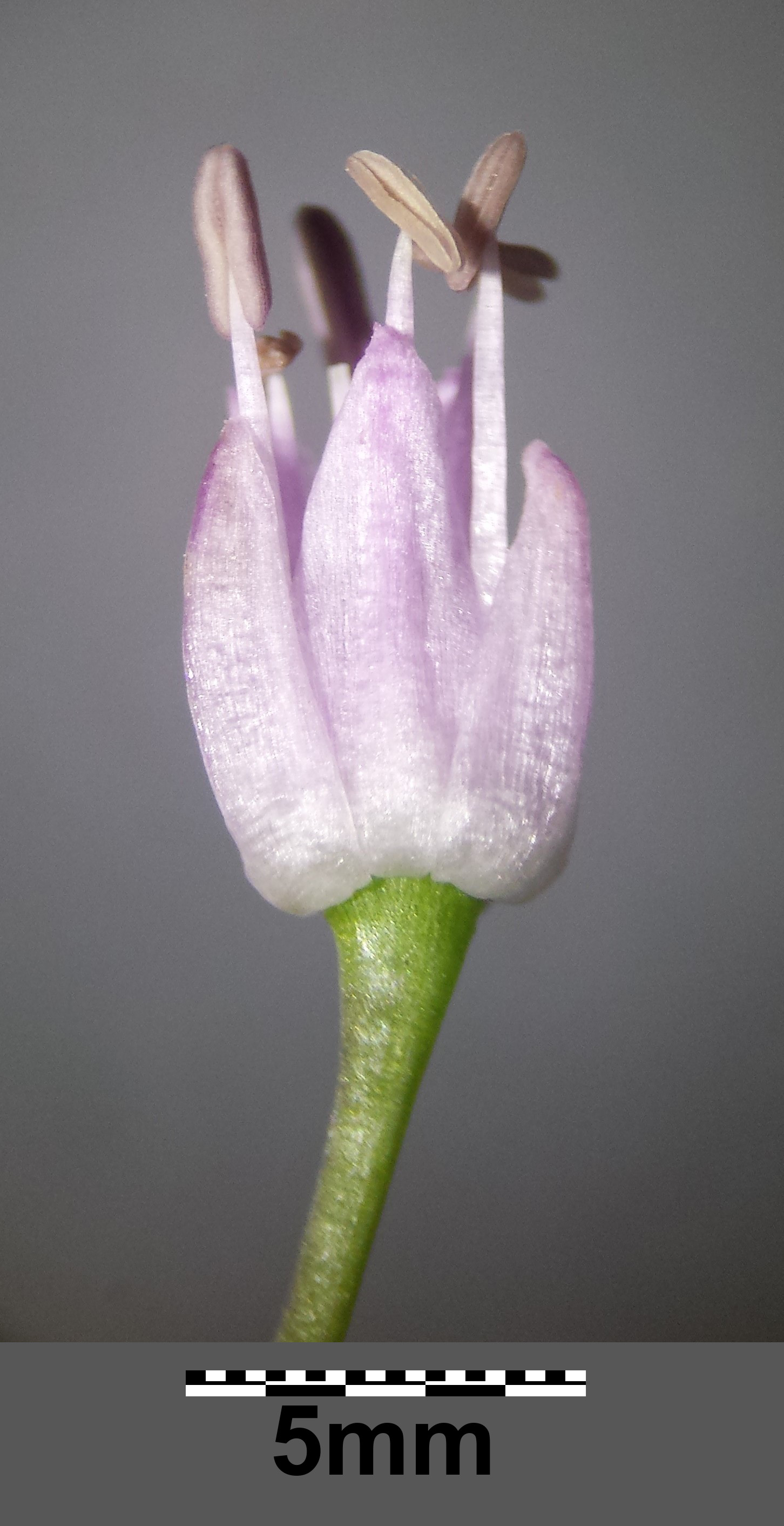 Flower Taxonym: Allium lusitanicum ss Fischer et al. EfÖLS 2008 ISBN 978-3-85474-187-9 Location: Waldberg in between Kleinebersdorf und Großrußbach, district Korneuburg, Lower Austria - ca. 334 m a.s.l. Habitat: semi-dry grassland